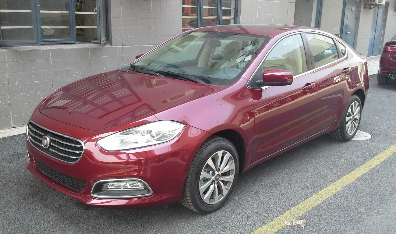 Fiat Viaggio photographed in Shanghai, China.